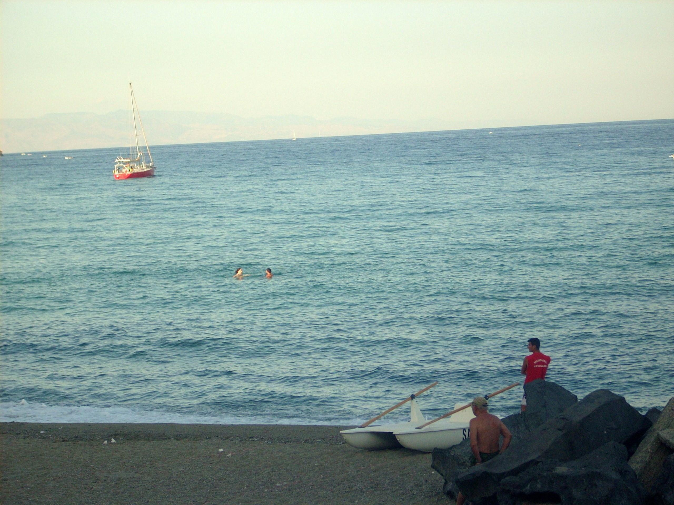 Giardini Naxos beach at sundown, near Taormina, Sicily.